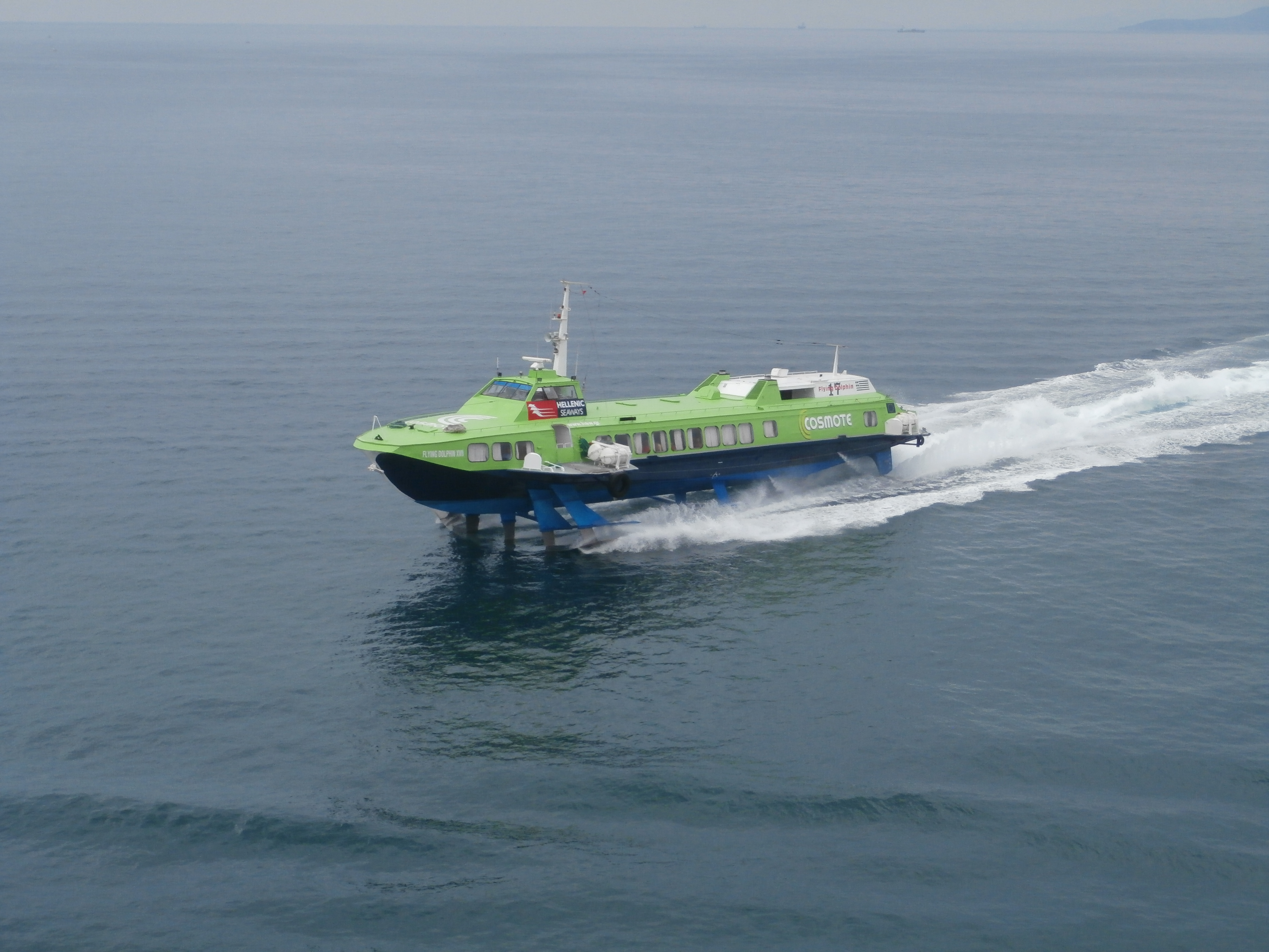 Flying Dolfin 17 approaching Pireas